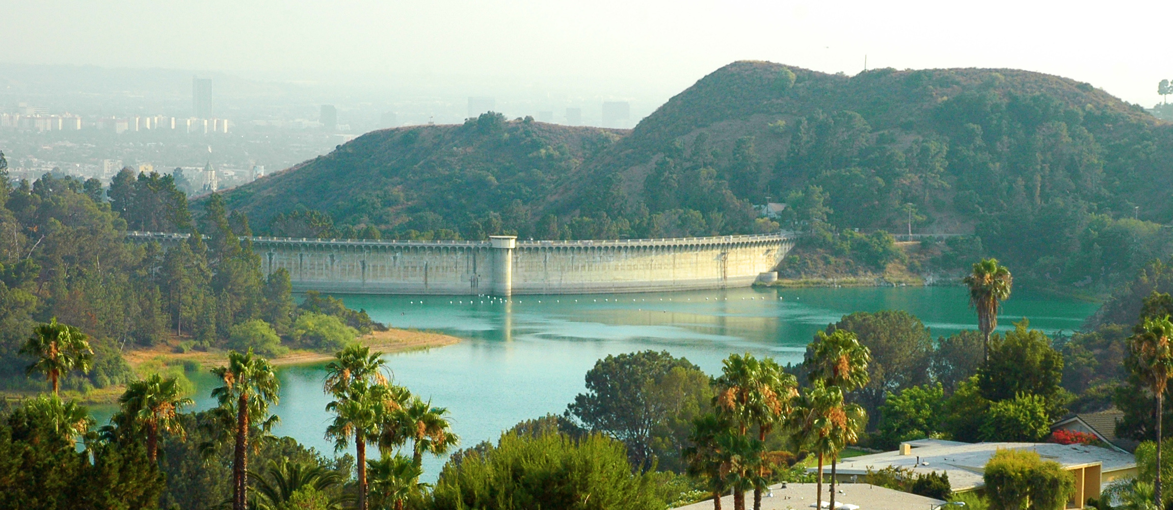 A view of Hollywood Reservoir and the back side of the Mulholland Dam — viewed from Canyon Lake Drive, Los Angeles, California. In the Hollywood Hills (eastern Santa Monica Mountains). Credits This image differs from the original digital photograph in that it has been cropped and the color balance, saturation, and contrast have been modestly adjusted.